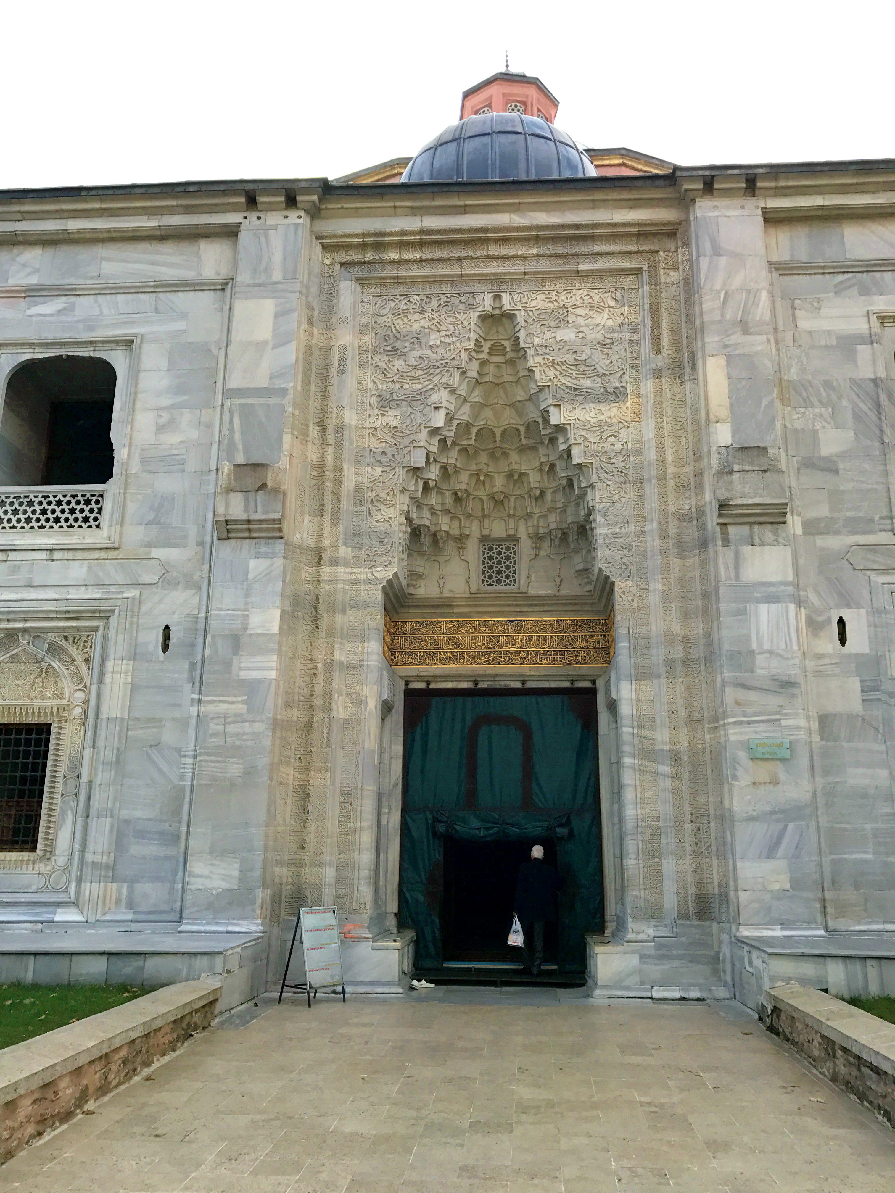 Green Mosque of Bursa, Turkey, 2017. Green Mosque (Turkish: Yeşil Camii, "Yeşil Mosque"), also known as Mosque of Sultan Mehmed I, is a part of the larger complex (a külliye) located on the east side of Bursa, Turkey, the former capital of the Ottoman Turks before they captured Constantinople in 1453. The complex consists of a mosque, türbe, madrasah, kitchen and bath.